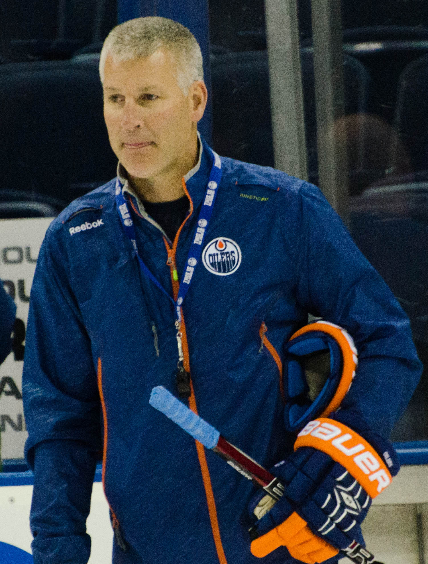 Jim Johnson at the 2015 Edmonton Oilers Development Camp, July 4, 2015.